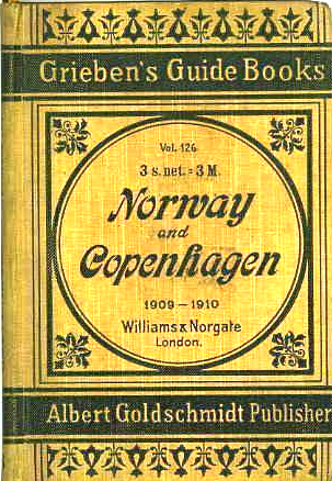 Cover of travel guide book entitled "Norway and Copenhagen" published by Albert Goldschmidt of Berlin